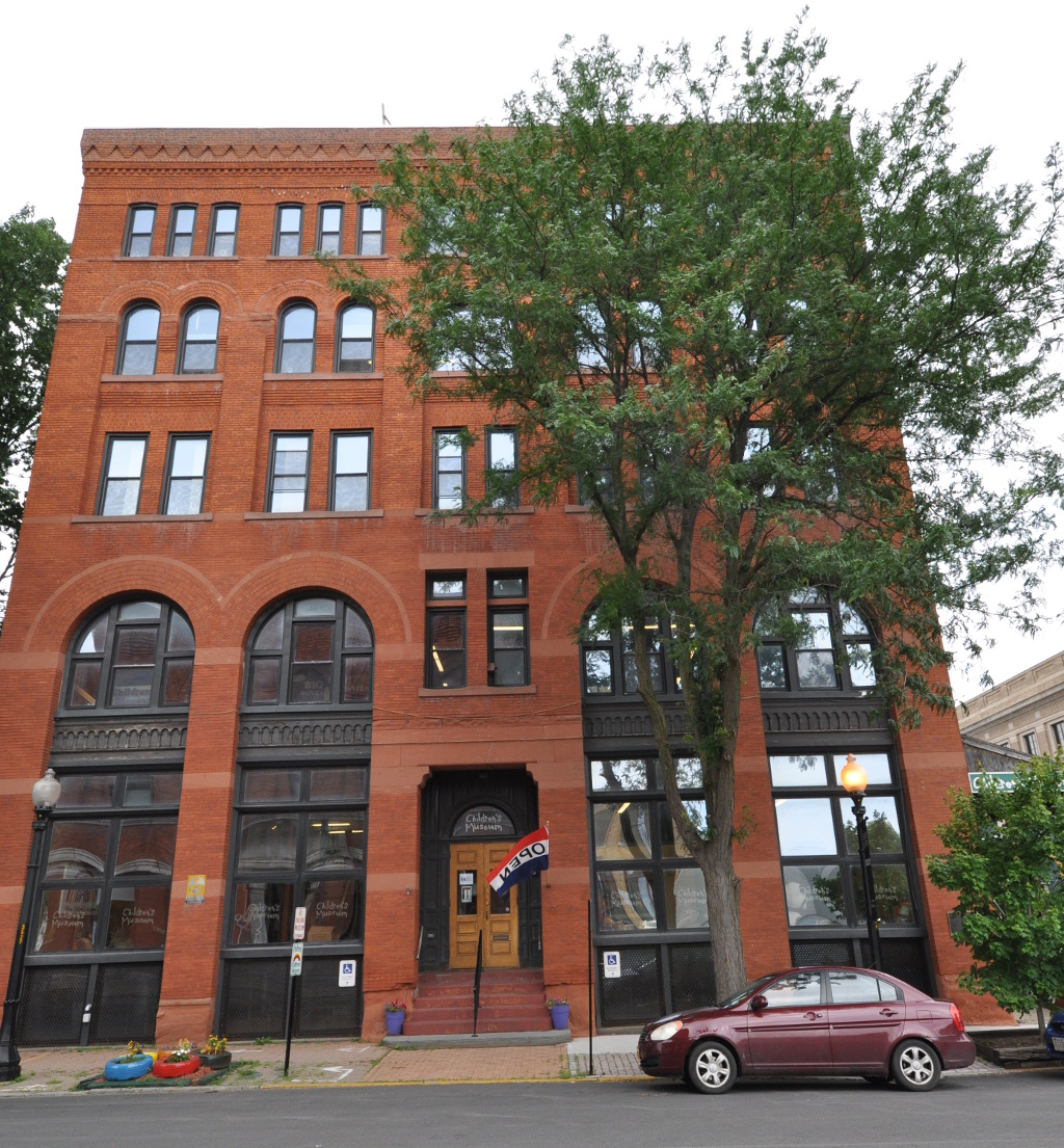 John C. Hieber Building, which currently houses the Utica Children's Museum, Utica, New York.